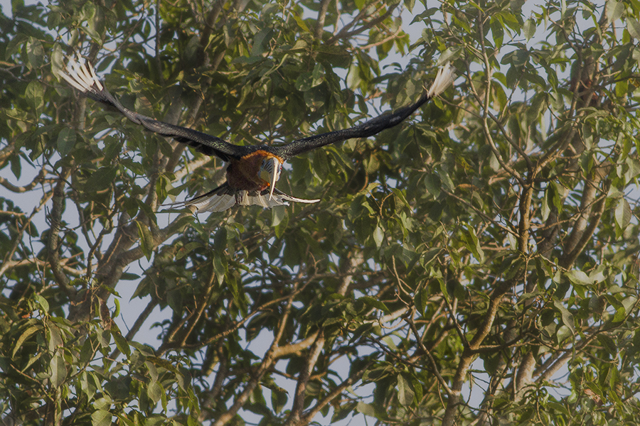 The species Rufous-necked Hornbill has been photographed in Flight during GoingWild's birding trip from Mahananda Wildlife Sanctuary in India on 06.12.2015.